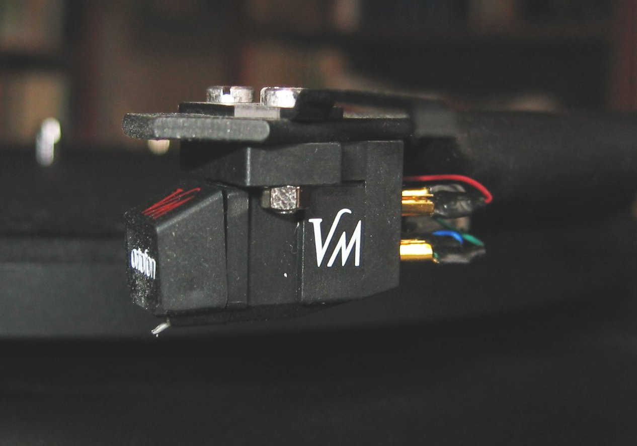 Ortofon moving coil pick-up